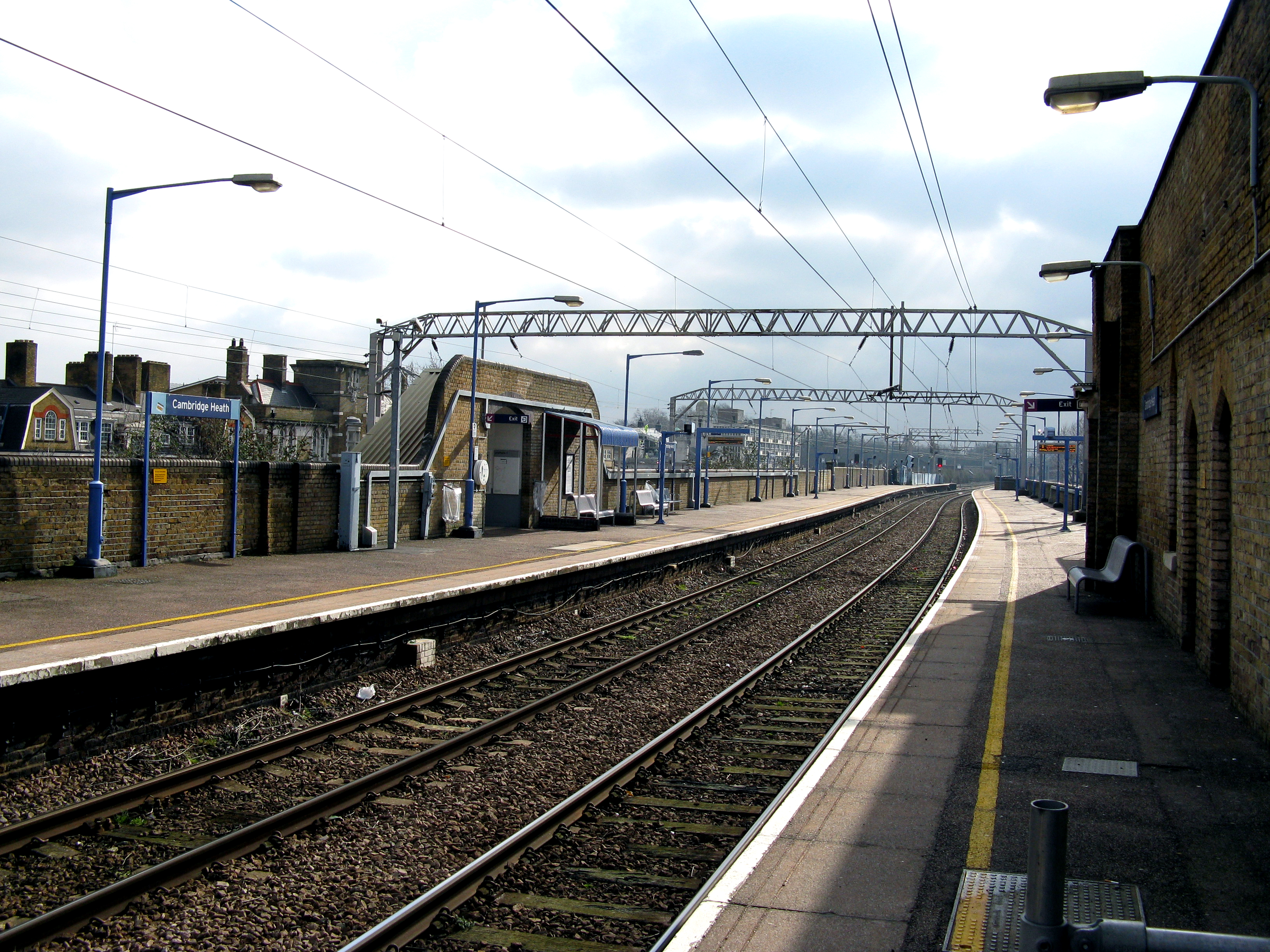 Cambridge Heath Station Looking south, from the northern end of the Down platform, we see the line towards Liverpool Street.